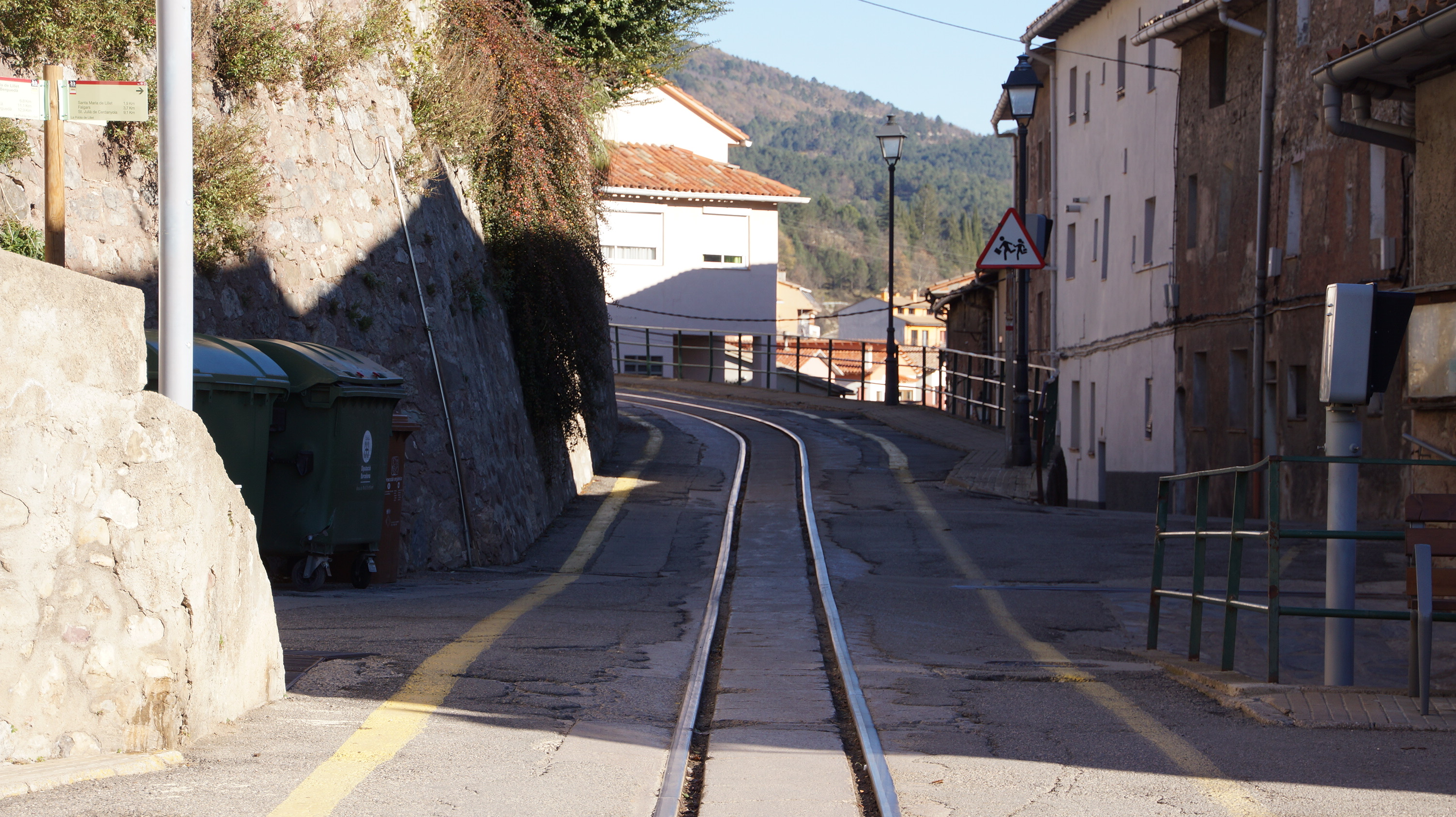 Tren del Ciment in La Pobla de Lillet